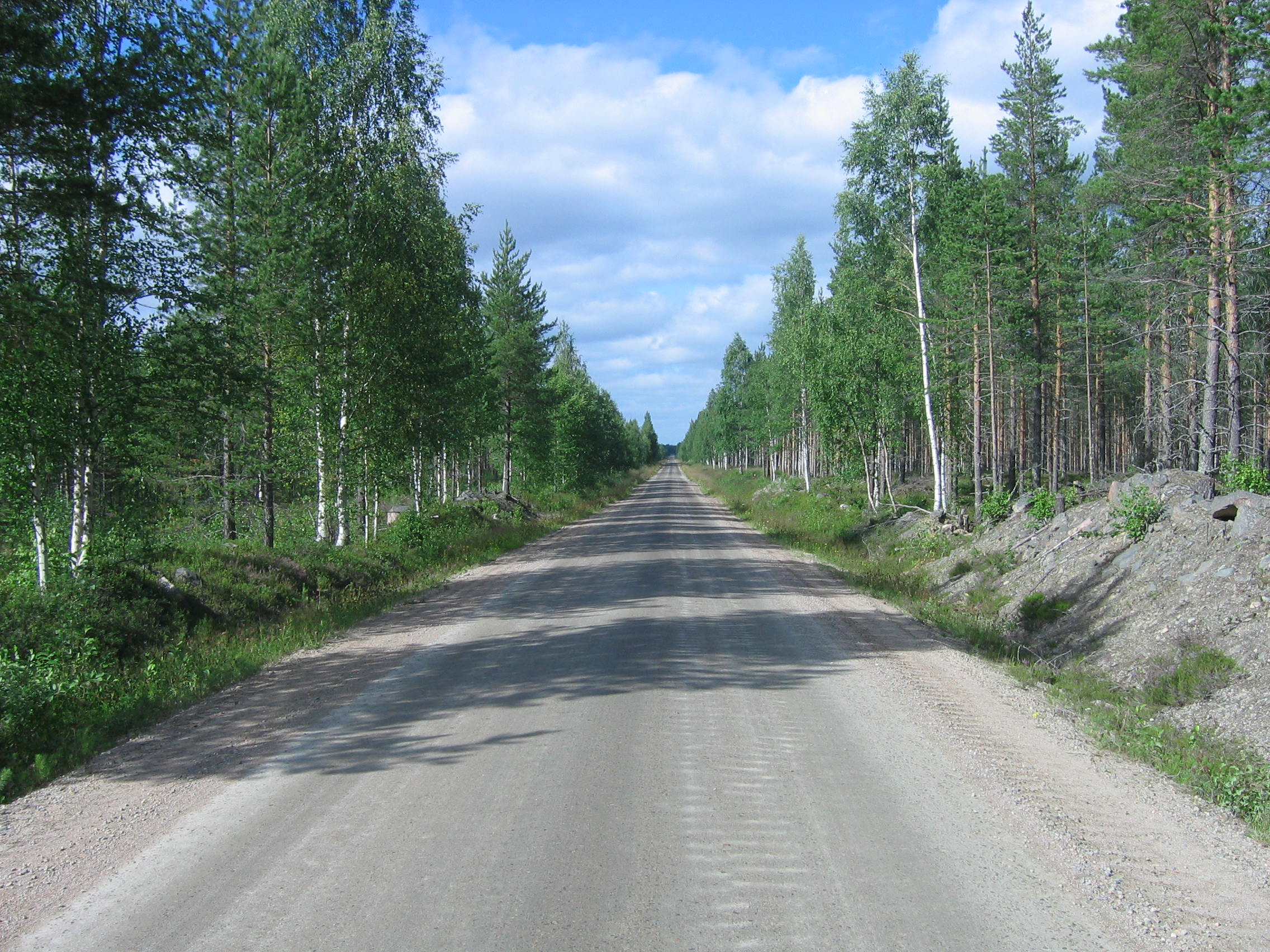 Olvasjärventie road (local road 18724) to Olvasjärvi in Juorkuna, Utajärvi, Finland